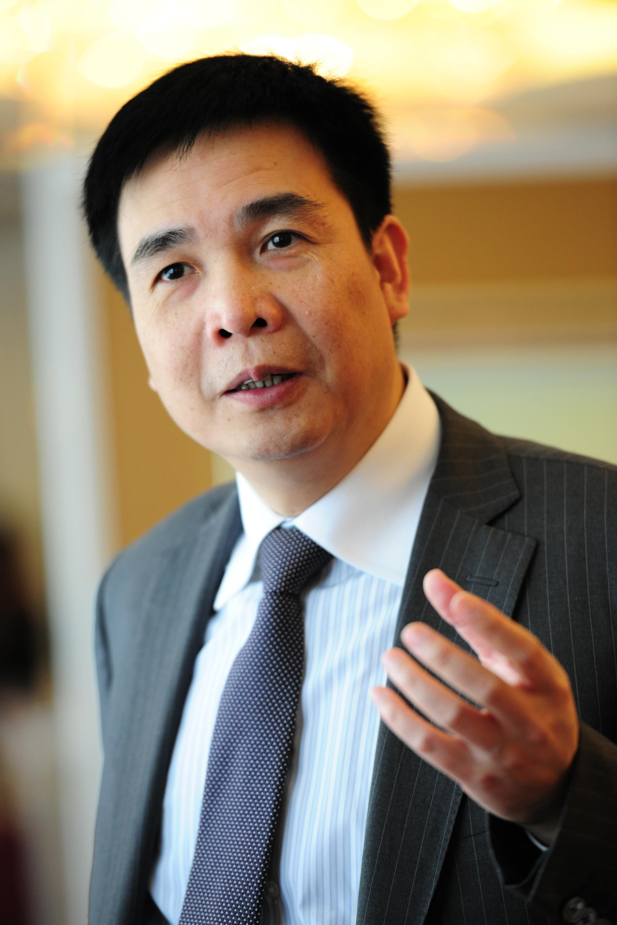 He is currently chairman of China Business Alliance, permanent executive vice chairman of China Foreign Trade Council, president of China Outlet Association, and chairman of Outlet Equity Exchange.